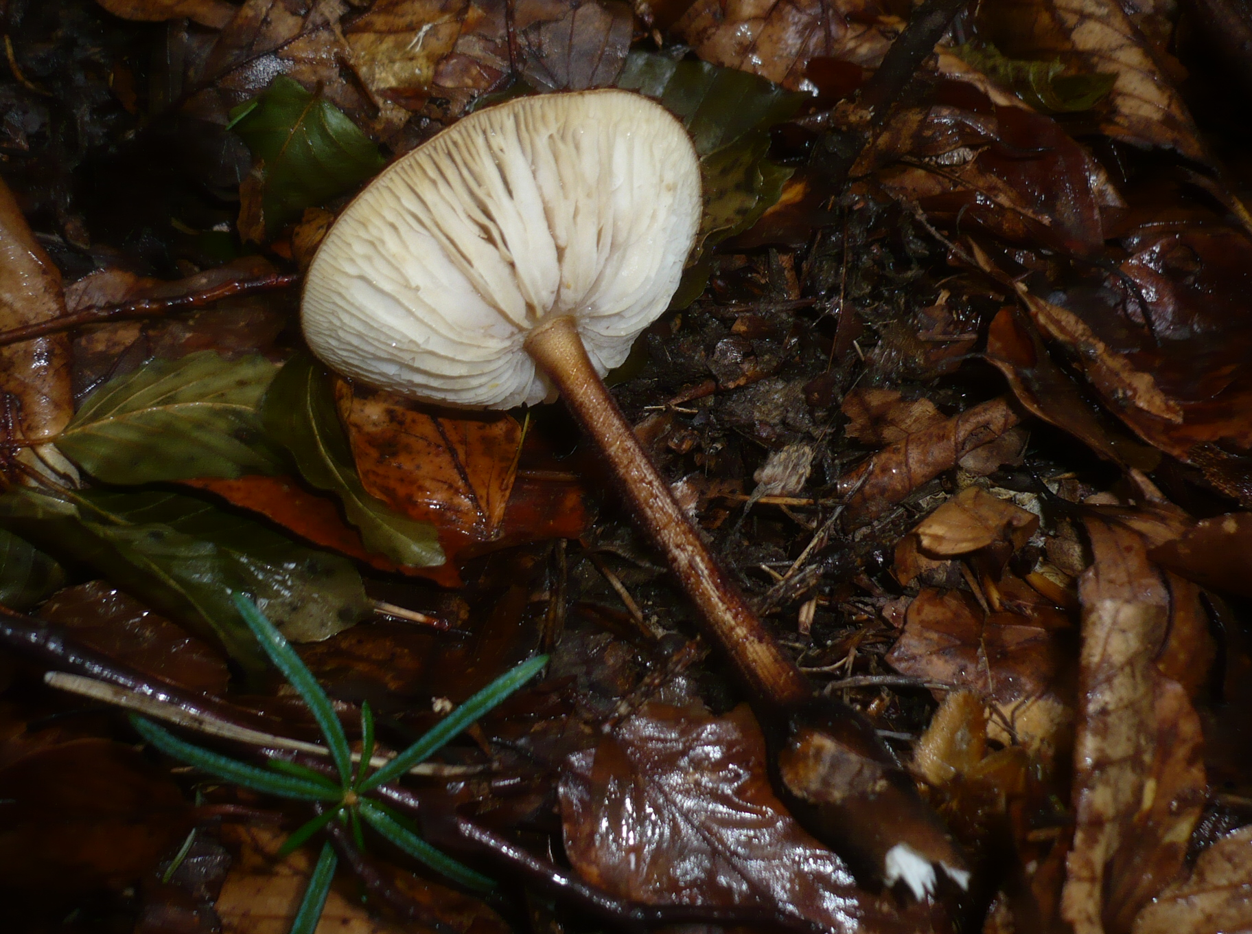 Xerula melanotricha Dörfelt Image location: Marchgraben, Wöllersdorf, Bezirk Wiener Neustadt, Lower Austria, Austria Recognized by sight: growing with fir in mixed forest For more information about this, see the observation page at Mushroom Observer.